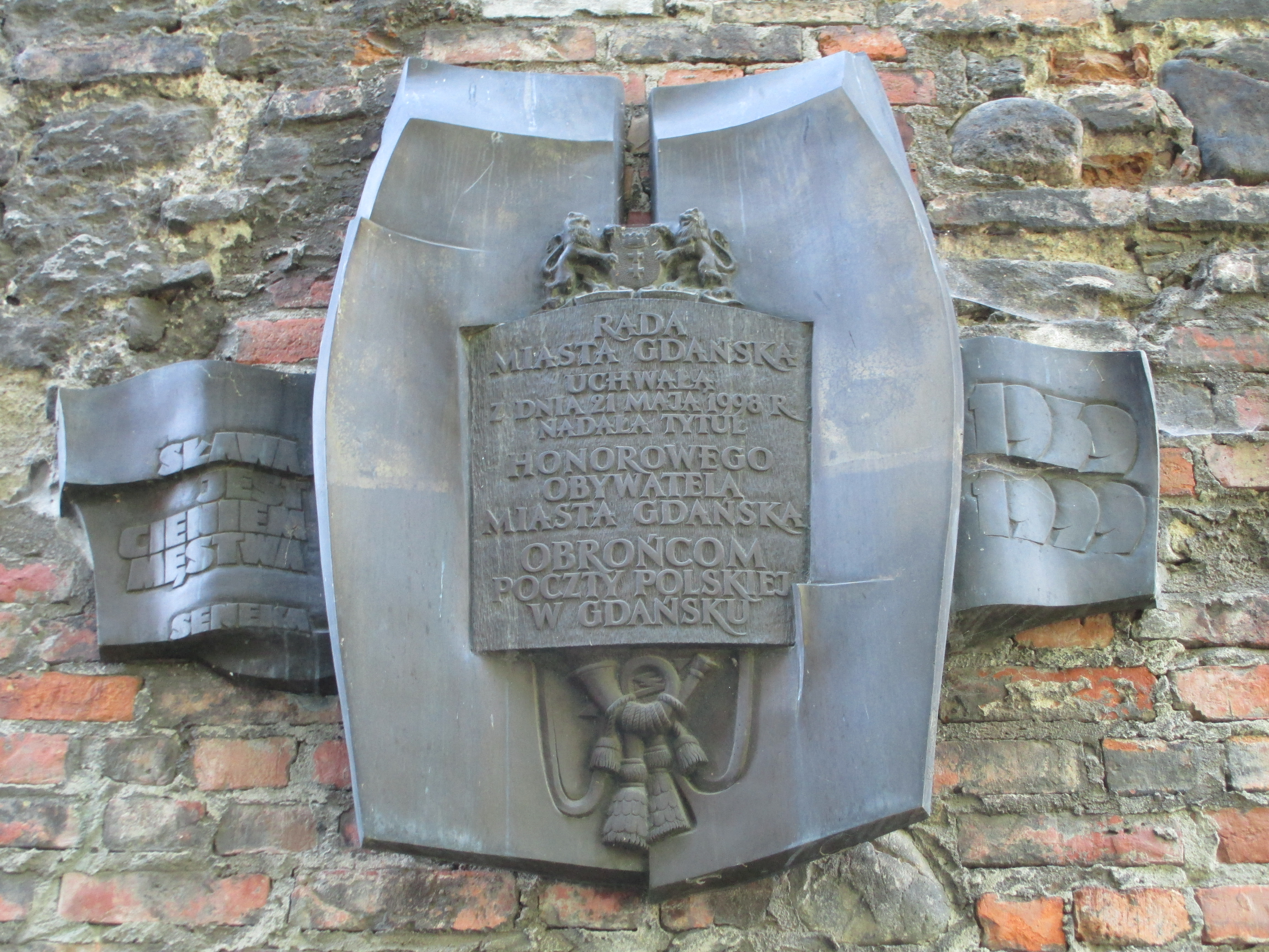 plaque commemorating the conferment of honorable citizenship of gdansk to the polish post office defenders in 1939